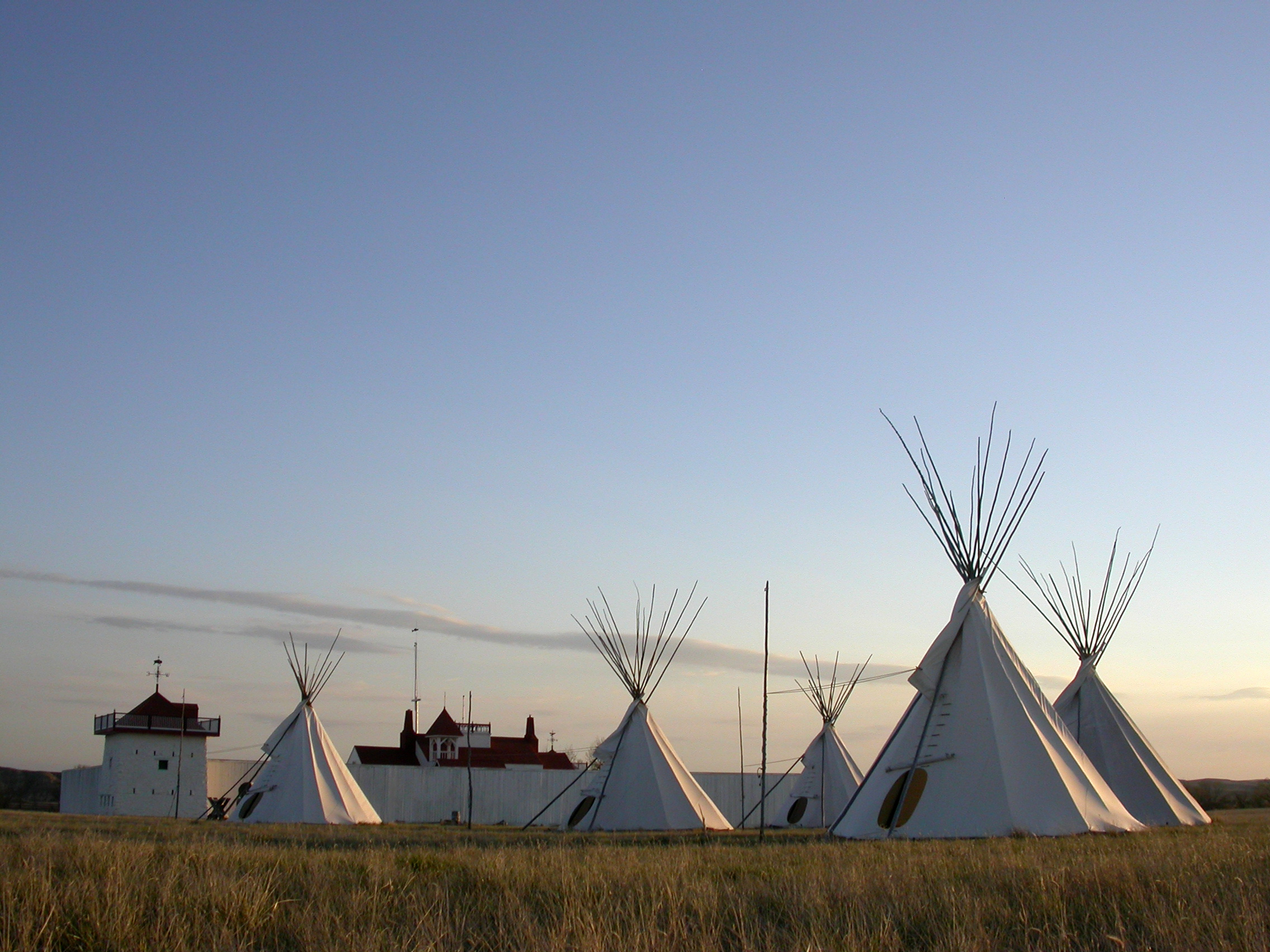 Location Fort Union Trading Post National Historic Site on the North Dakota / Montana Border Description The fort, possibly first known as Fort Henry or Fort Floyd, was built in 1828 or 1829 by the Upper Missouri Outfit managed by Kenneth McKenzie and capitalized by John Jacob Astor's American Fur Company. Fort Union was the most important fur trading post on the upper Missouri until 1867.